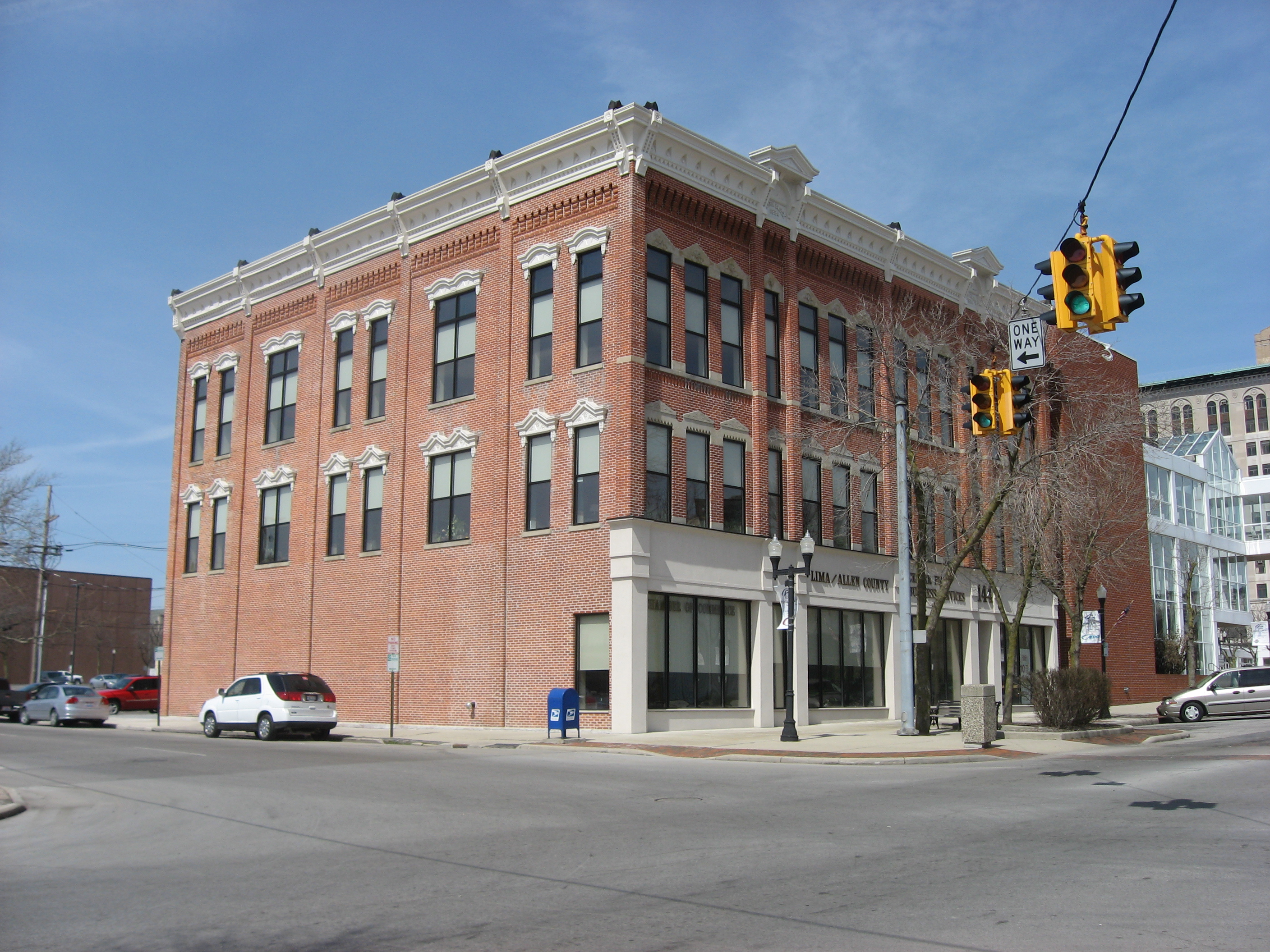 Front and southern side of the Martin and Kibby Blocks, located at 140-146 S. Main Street in Lima, Ohio, United States. Built in 1884, the blocks are listed together on the National Register of Historic Places.